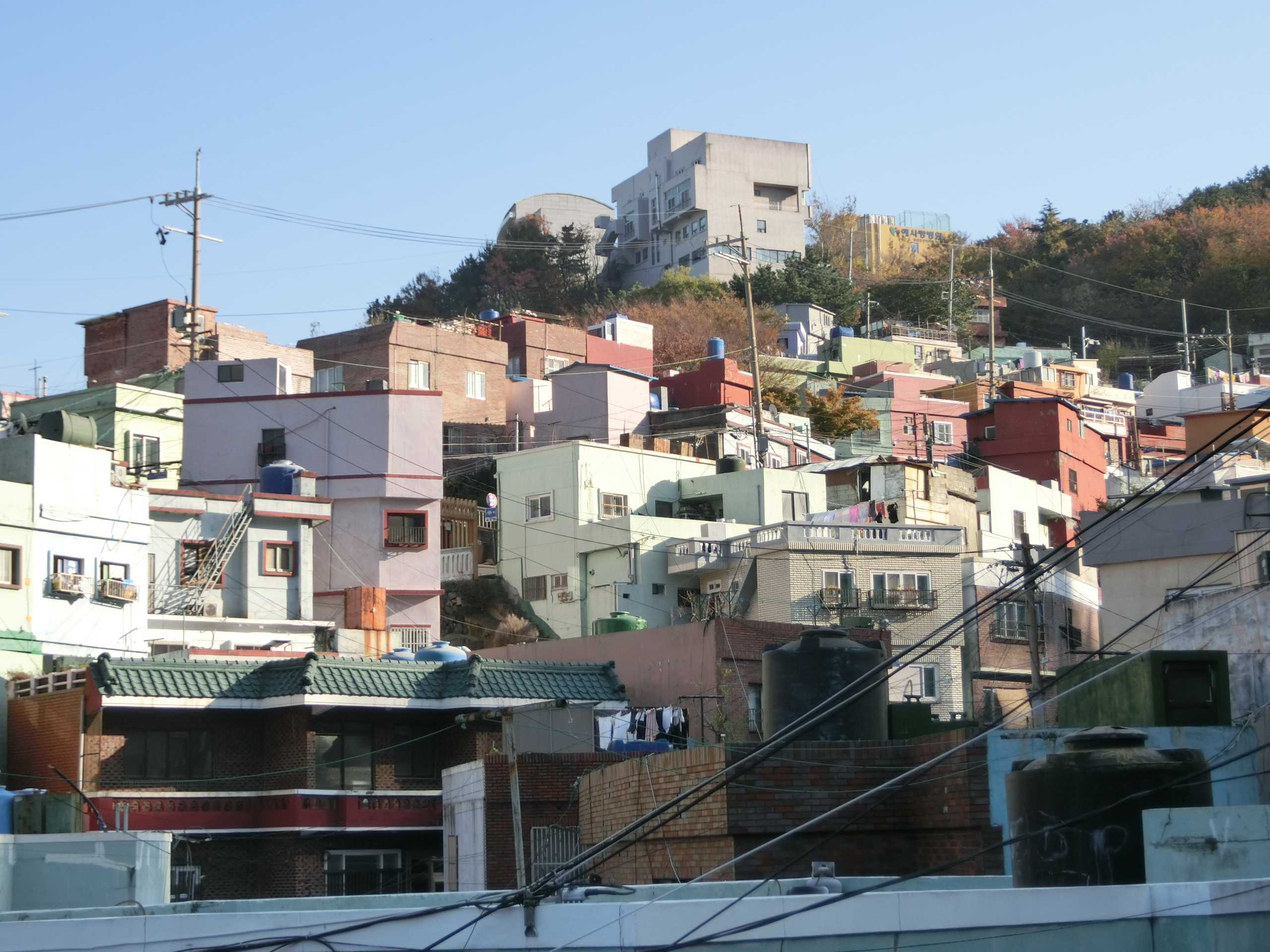 Amidong Tombstone Culture Village